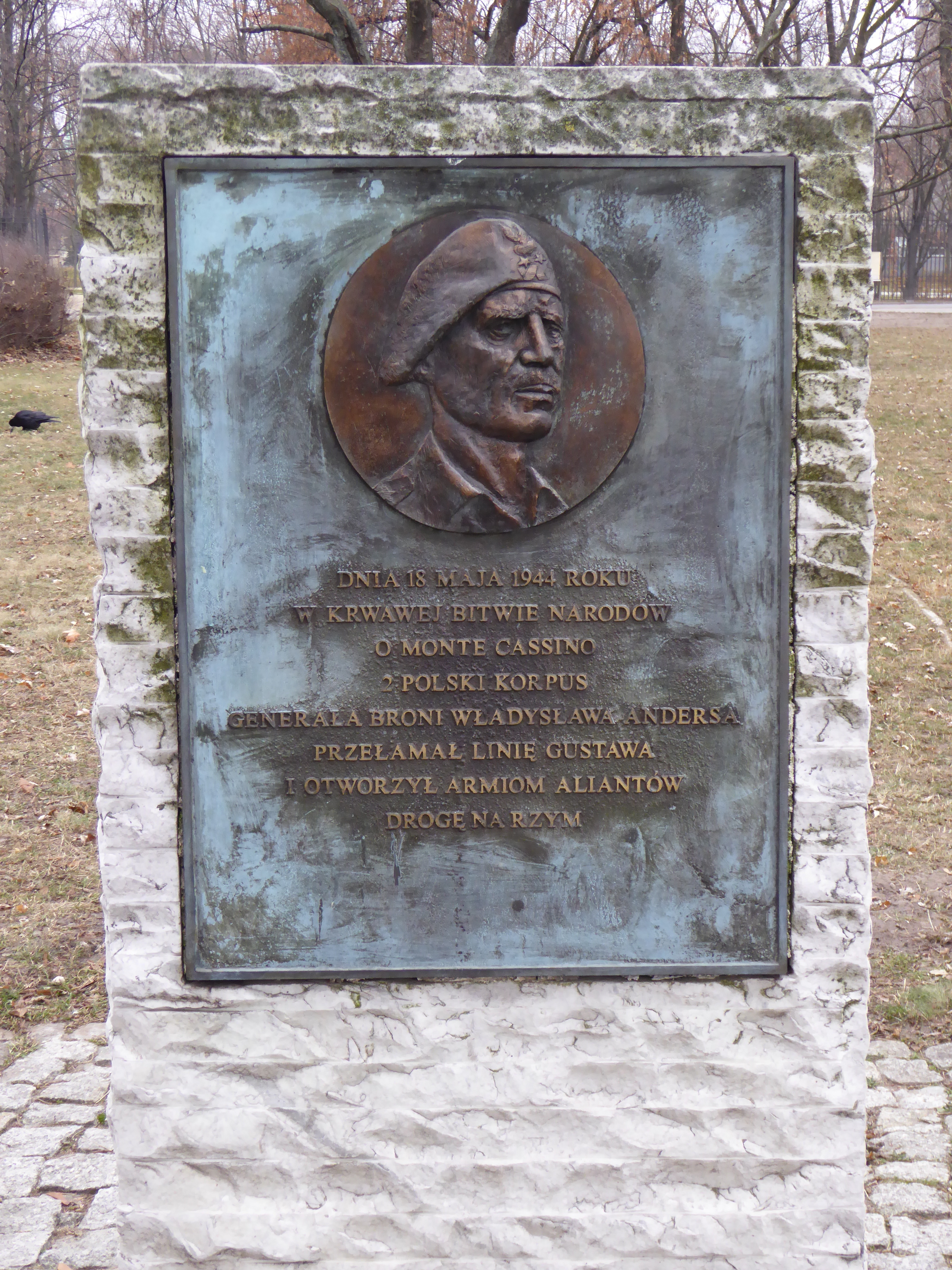 Monument to the Battle of Monte Cassino in Warsaw (Pomnik Bitwy o Monte Cassino w Warszawie)